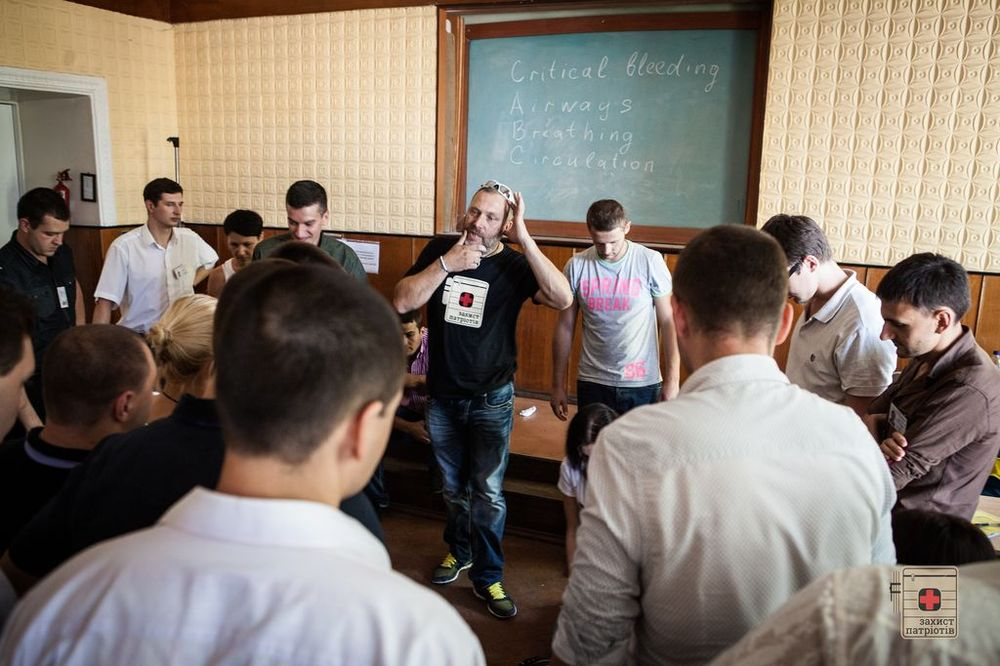 «Захист Патріотів»: навчання патрульних - 1